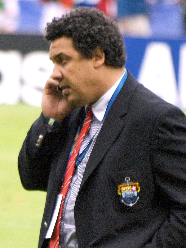 The former French rugby union player Serge Blanco during the semi-final of the 2009-10 Heineken Cup between Biarritz and Munster